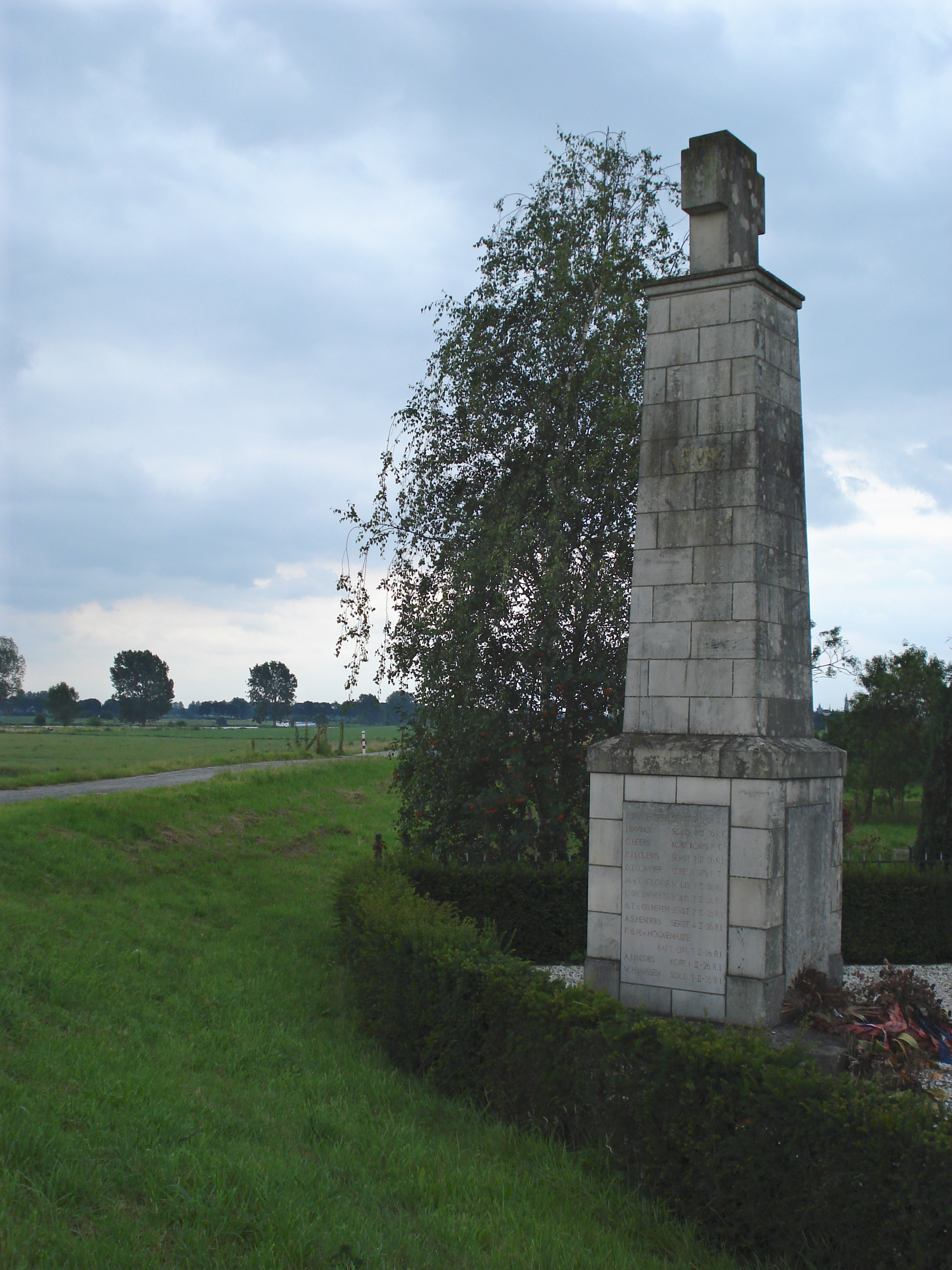 Katwijk, monument du 10 mai 1940. Monument for those soldier of the Dutch Army fallen at Katwijk (Cuyk) in may 10th 1940.